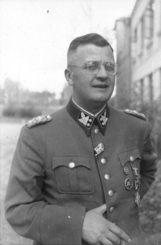 Erich von dem Bach-Zelewski